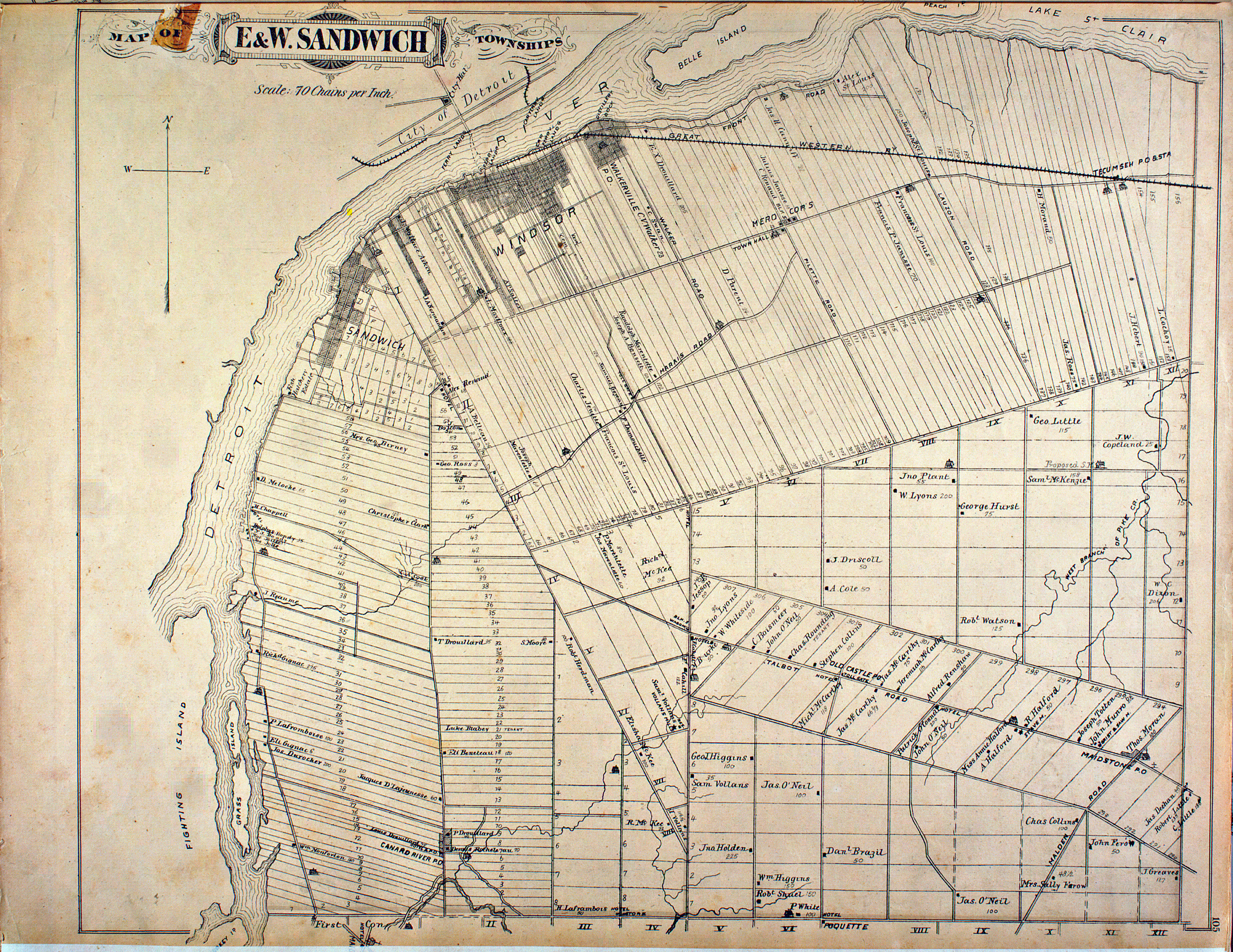 This is a ninteenth century map of East and West Sandwich Township in Essex County, Ontario